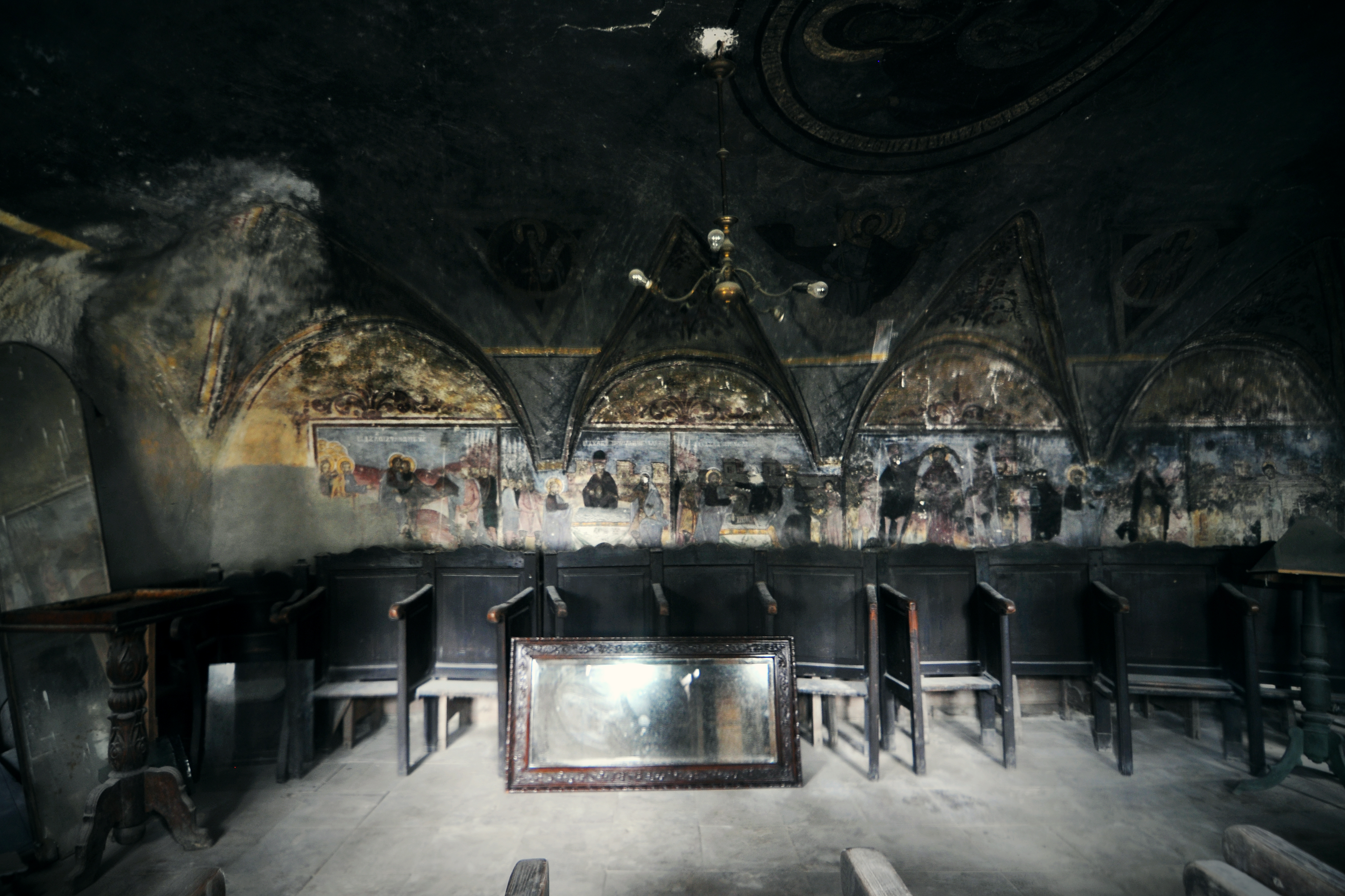 chapel at Sinaia Monastery, closed and awaiting restoration